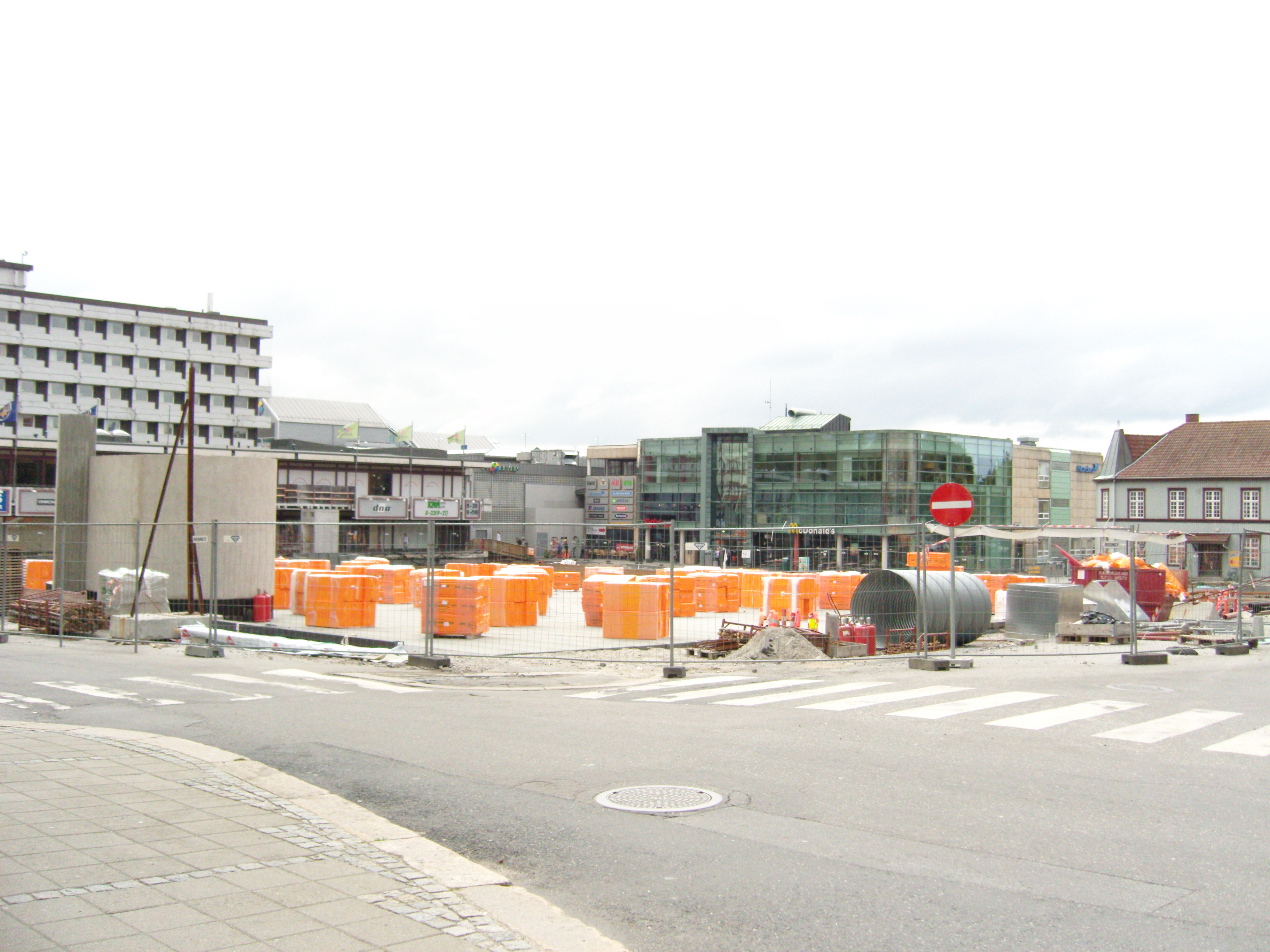 (re-)building of the square in Sarpsborg